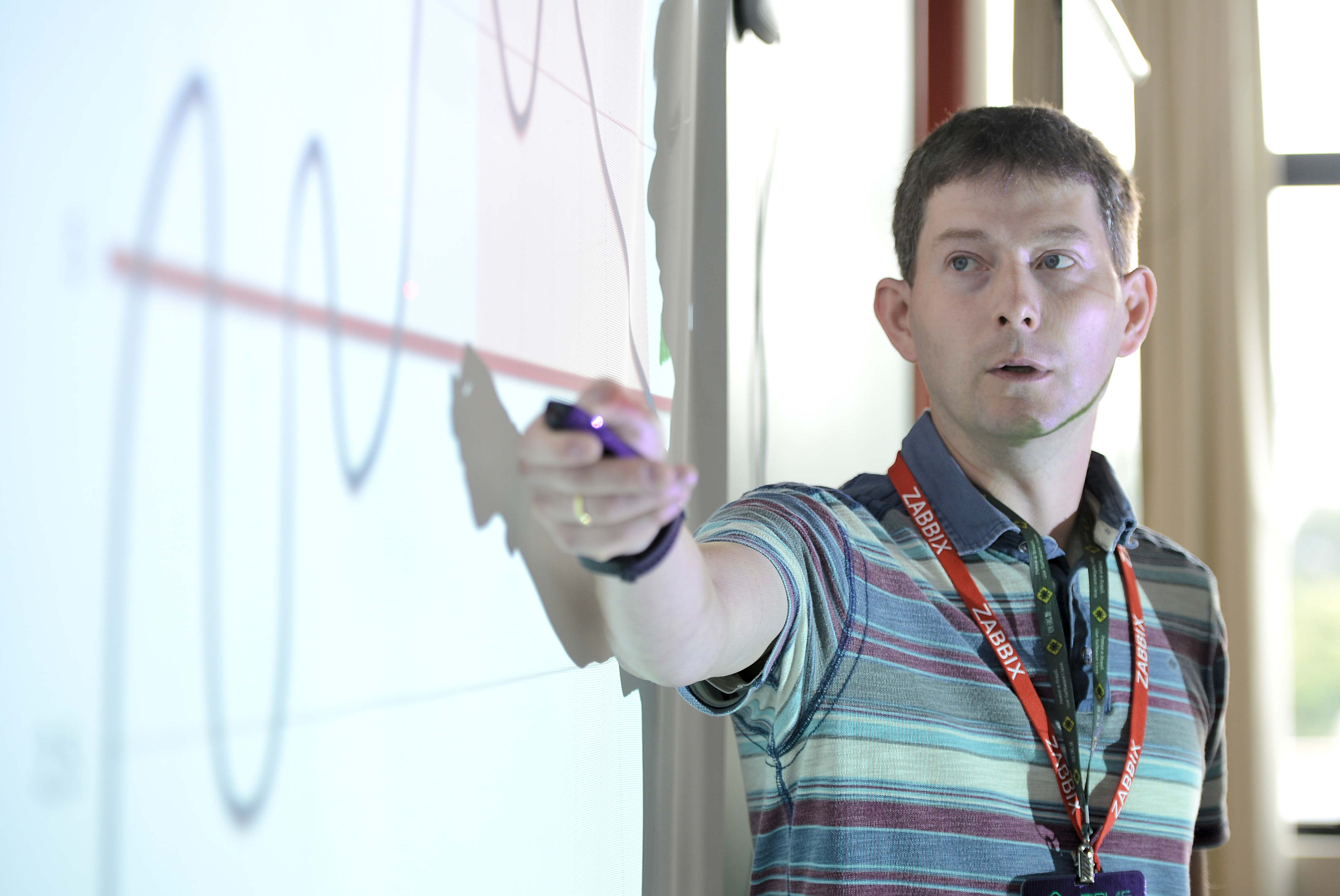 Porto Alegre, 08/07/2015 - Fisl16 - Smart problem detection with Zabbix, com Alexei Vladishev - Foto: Tárlis Schneider